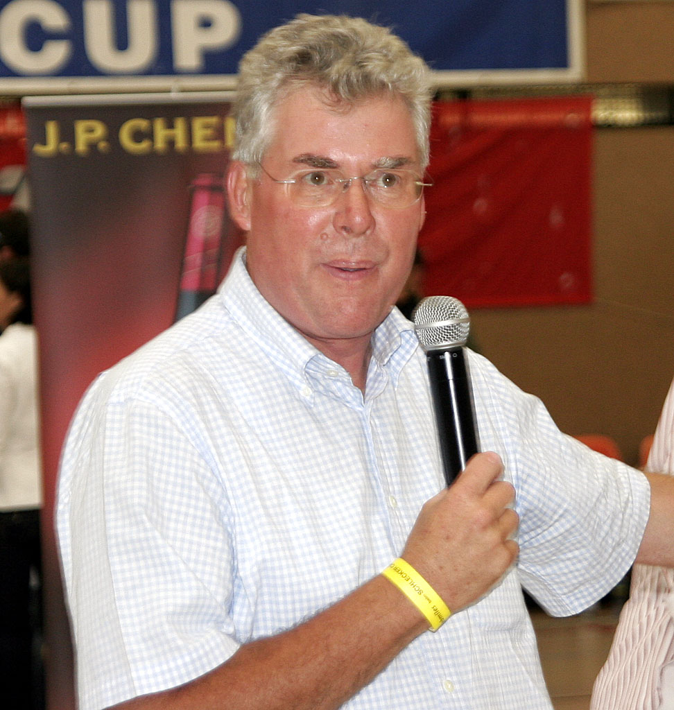 The Major from Ehingen Johann Krieger, during the Schlecker Cup 2007 in Ehingen (Germany)